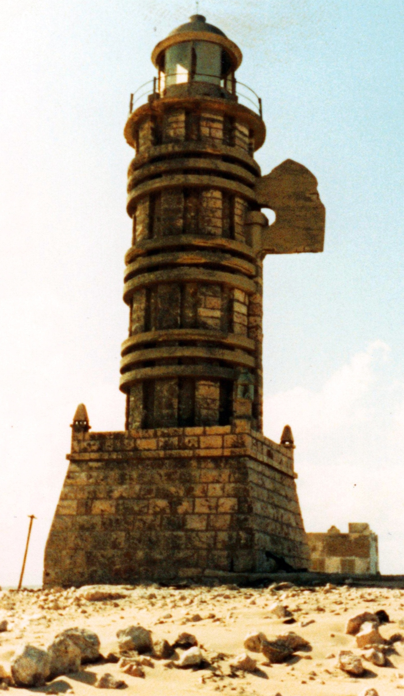 This masonry lighthouse, no longer functional, stands at Cape Guardafui at the extreme tip of the Horn of Africa where the Gulf of Aden meets the Indian Ocean. Built during the Italian fascist era, this strange-looking lighthouse was designed to bring to mind a fasces, a bundle of rods with an ax head protruding.